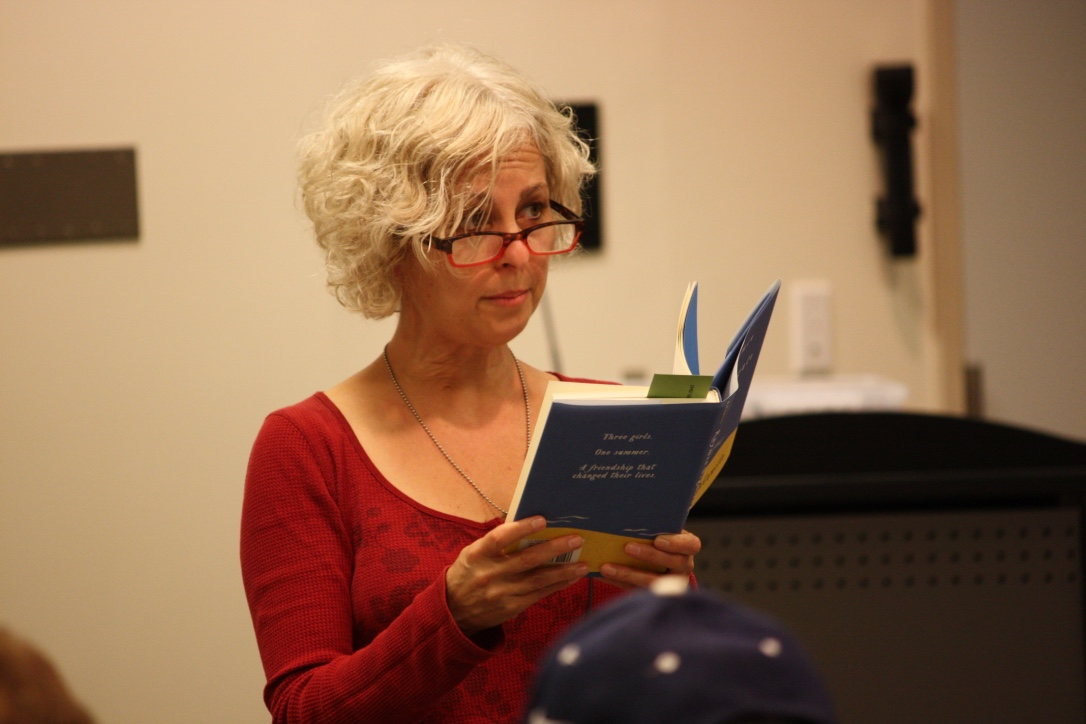 thumb_IMG_9198_1024 (Kate DiCamillo 7.11.16)